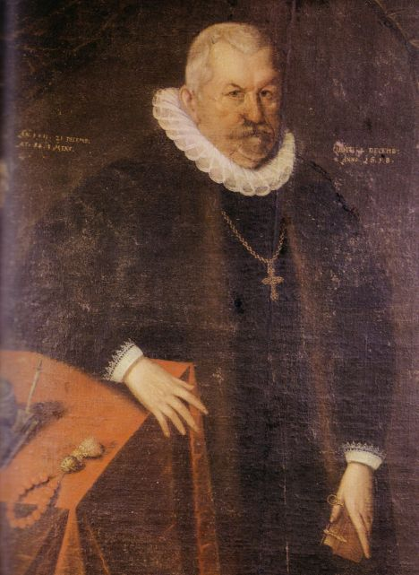 Dietrich von Fürstenberg, prince-bishop of Paderborn from 1585 to 1618